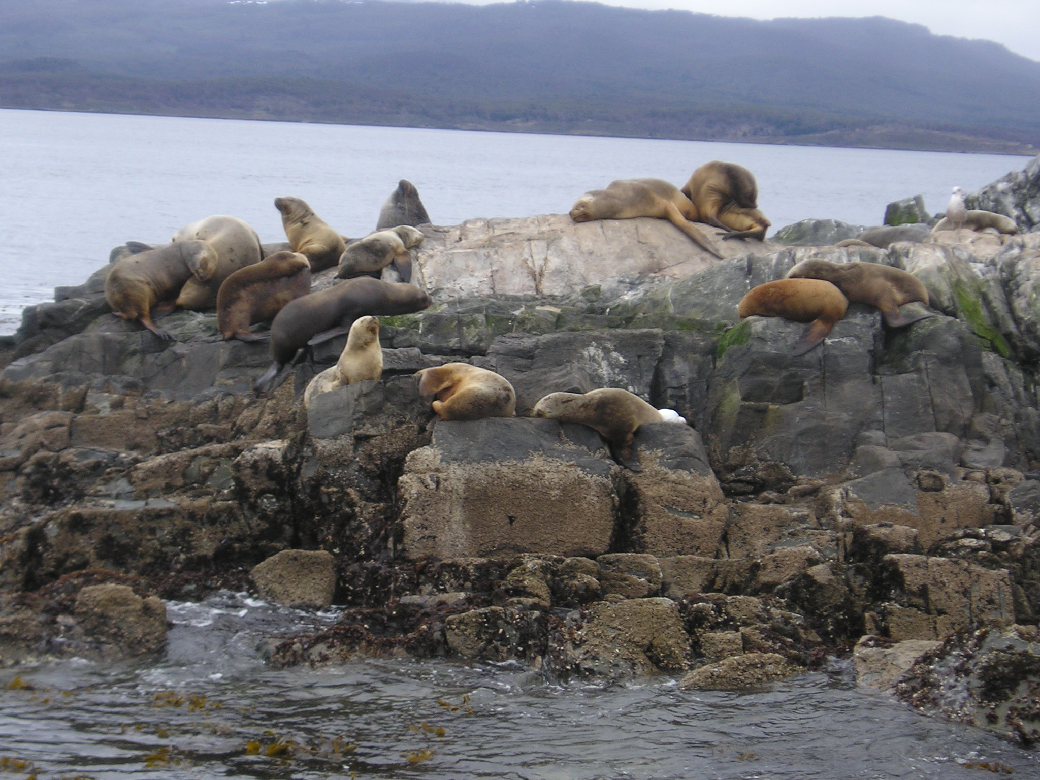 Sea lions at Isla de los Lobos in the Beagle Channel near Ushuaia, Argentinian Tierra del Fuego.